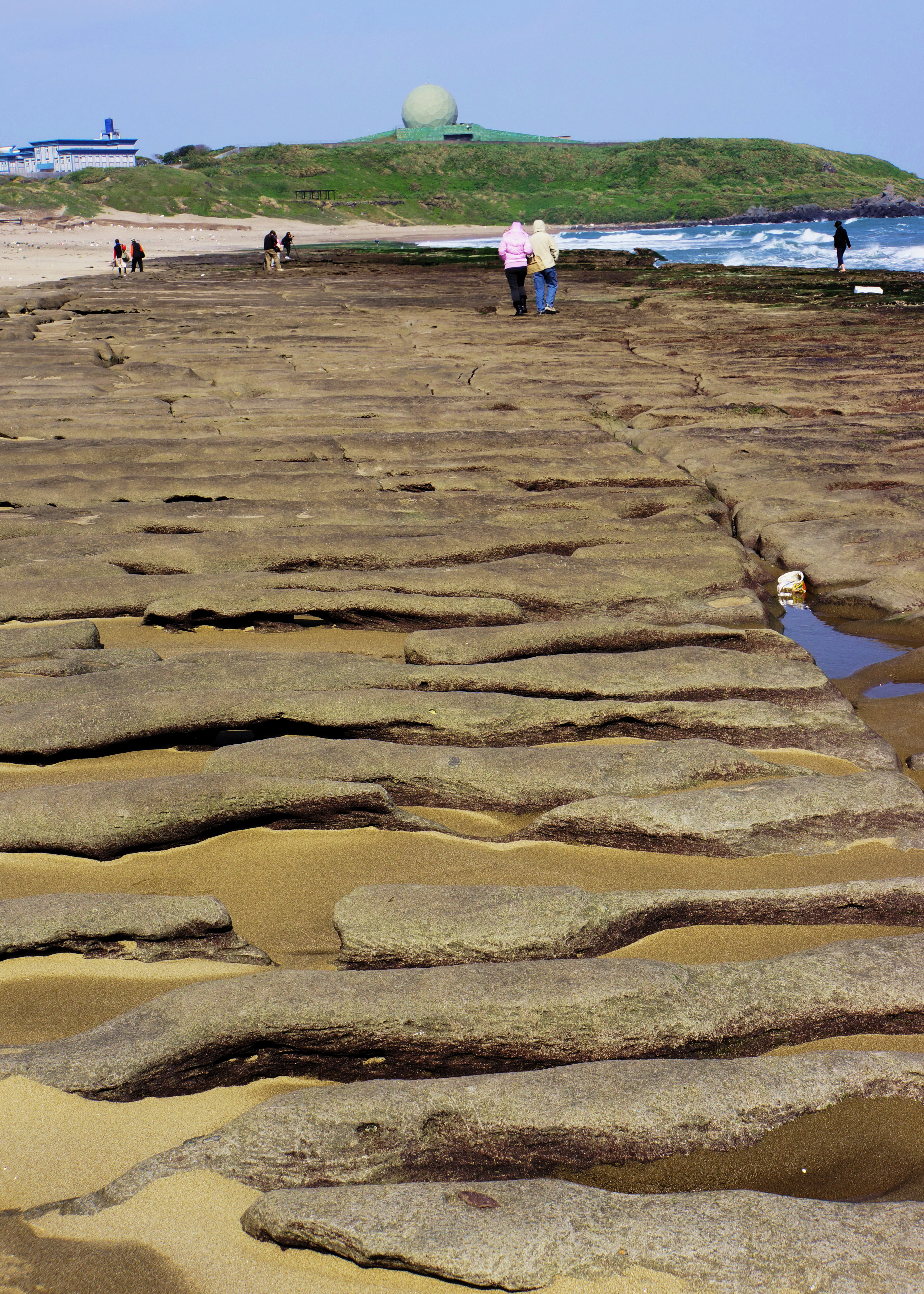 The rocky beach beside Fugui Cape (富貴角), the northernmost point on Taiwan